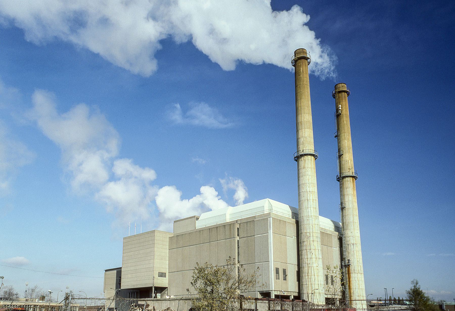 Des Carrières garbage incinerator, Petite-Patrie, Montreal, 1990. In this photo the incinerator is operational. It was decommissioned in 1993, but the structure still exists, dominating the Petite-Patrie neighbourhood in Montreal.